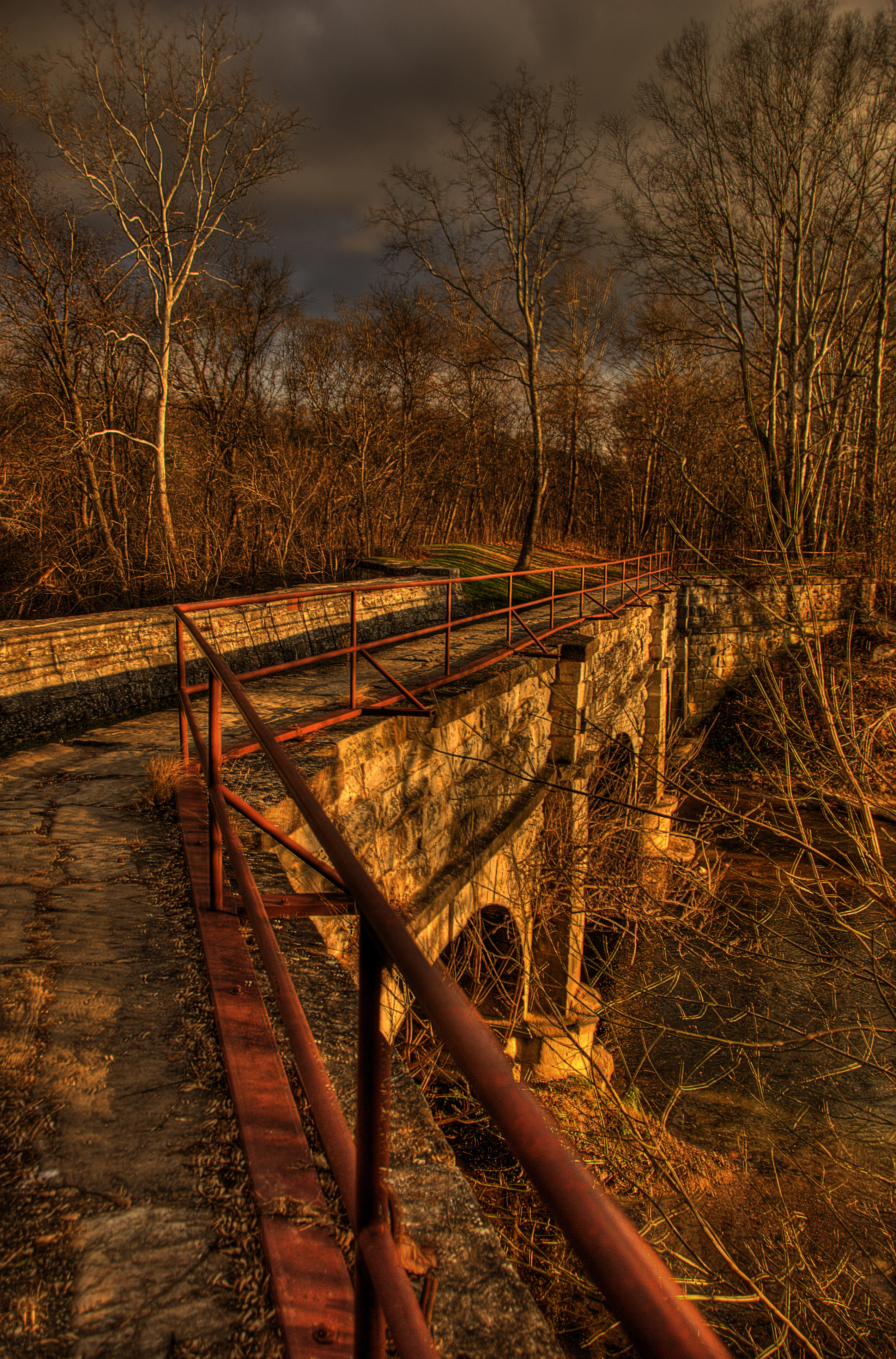 Antietam Iron Furnace Site and Antietam Village, Confluence of Antietam Creek and the Potomac River Antietam